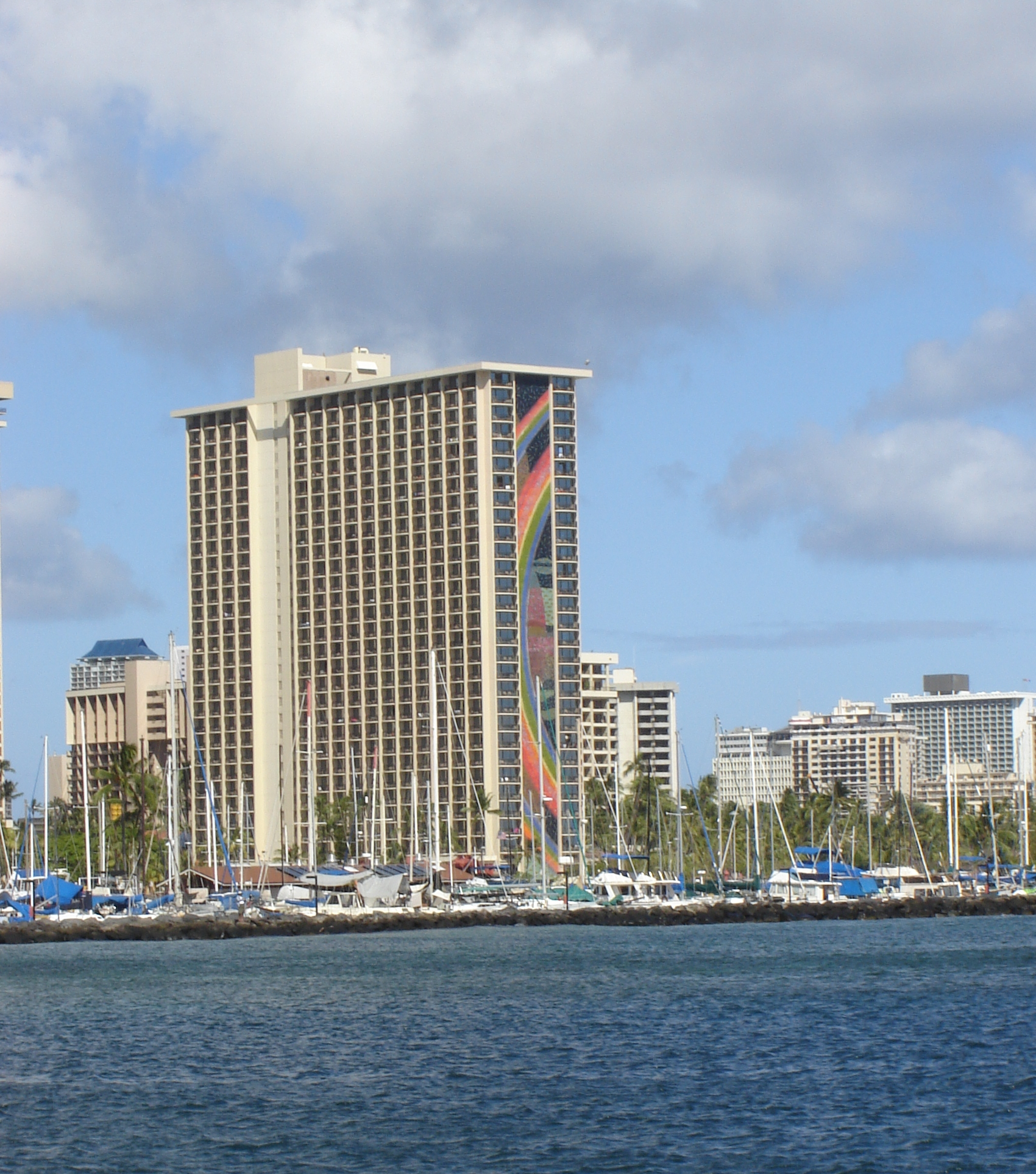 The Hilton Hawaiian Village's Rainbow Tower in Waikiki, HI.